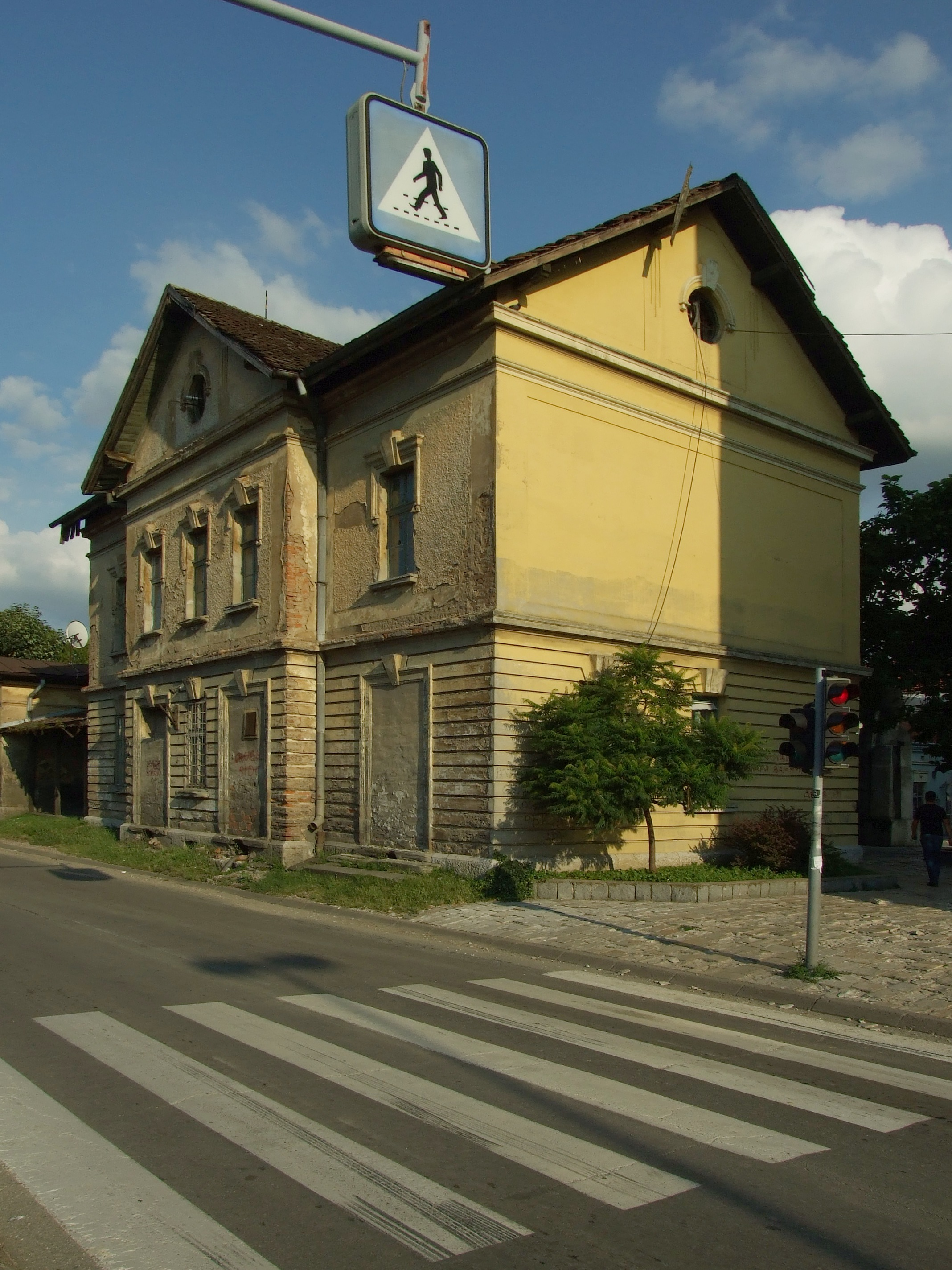 Former train station building in Valjevo, Serbia